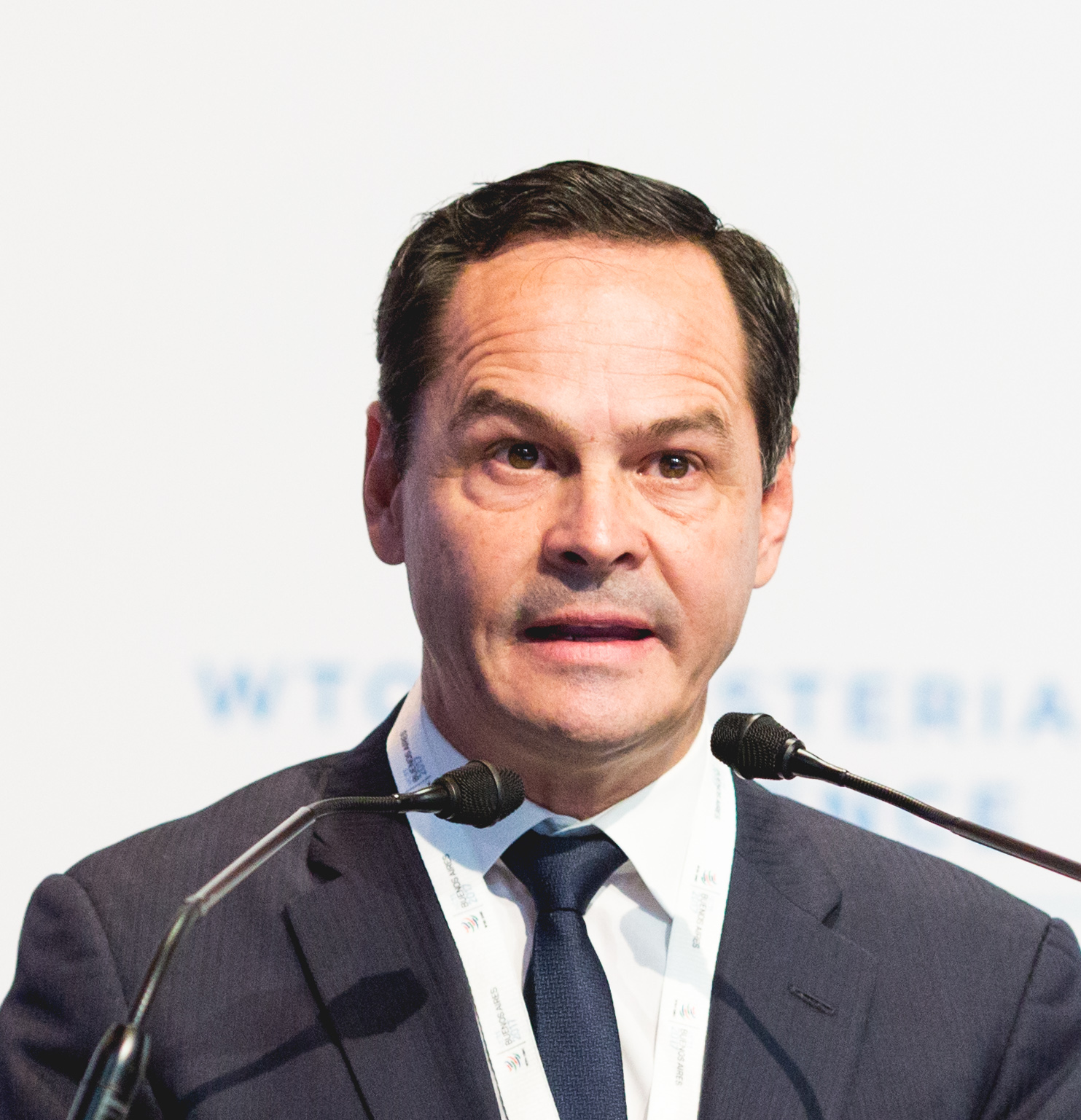 Photos from the plenary session 12 December morning photo gallery may be reproduced provided attribution is given to the WTO and the WTO is informed. Photos: © WTO/ Cuika Foto